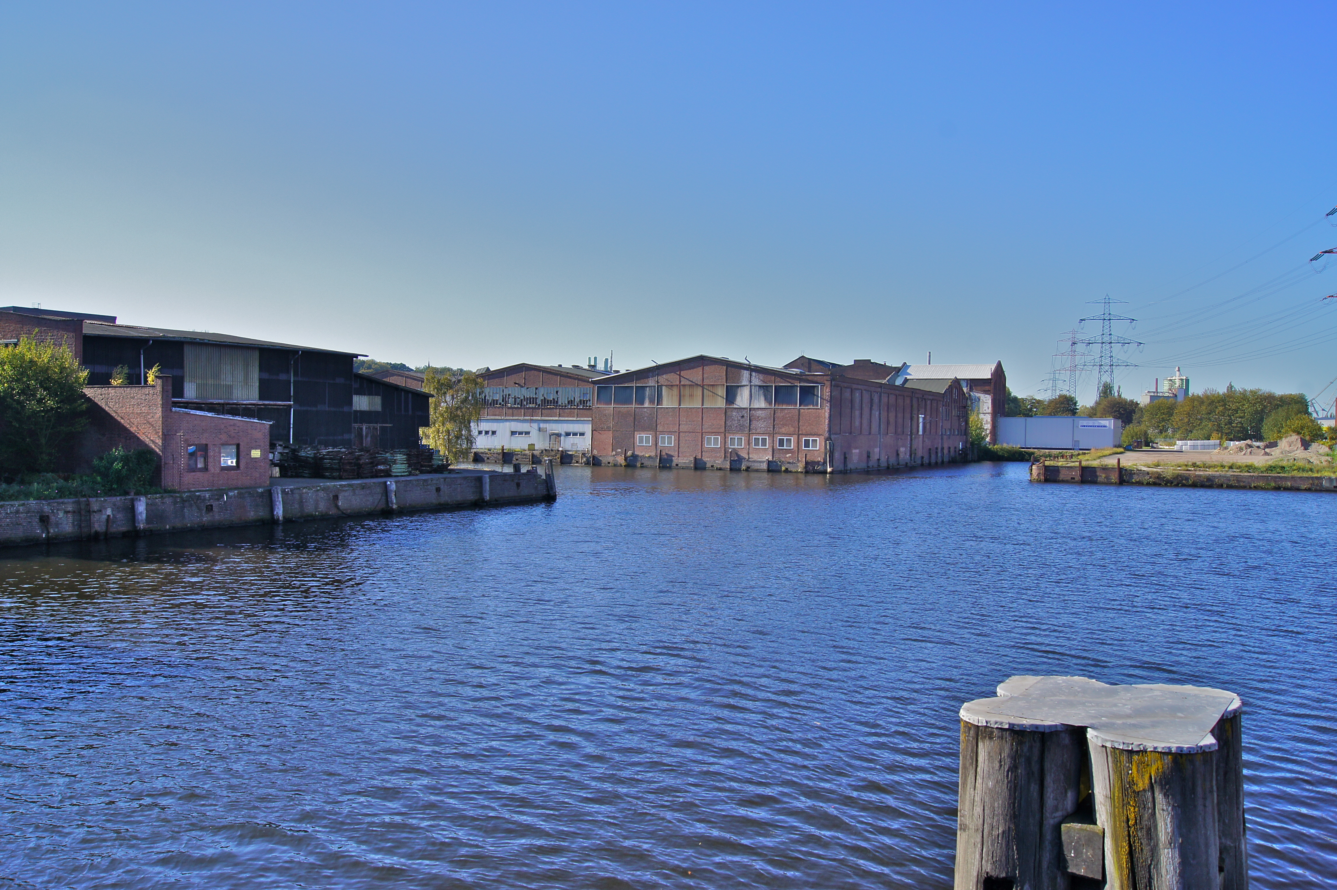 Hamburg (Harburg), Germany: The Ziegelwiesenkanal (left) meets the Lotsekanal